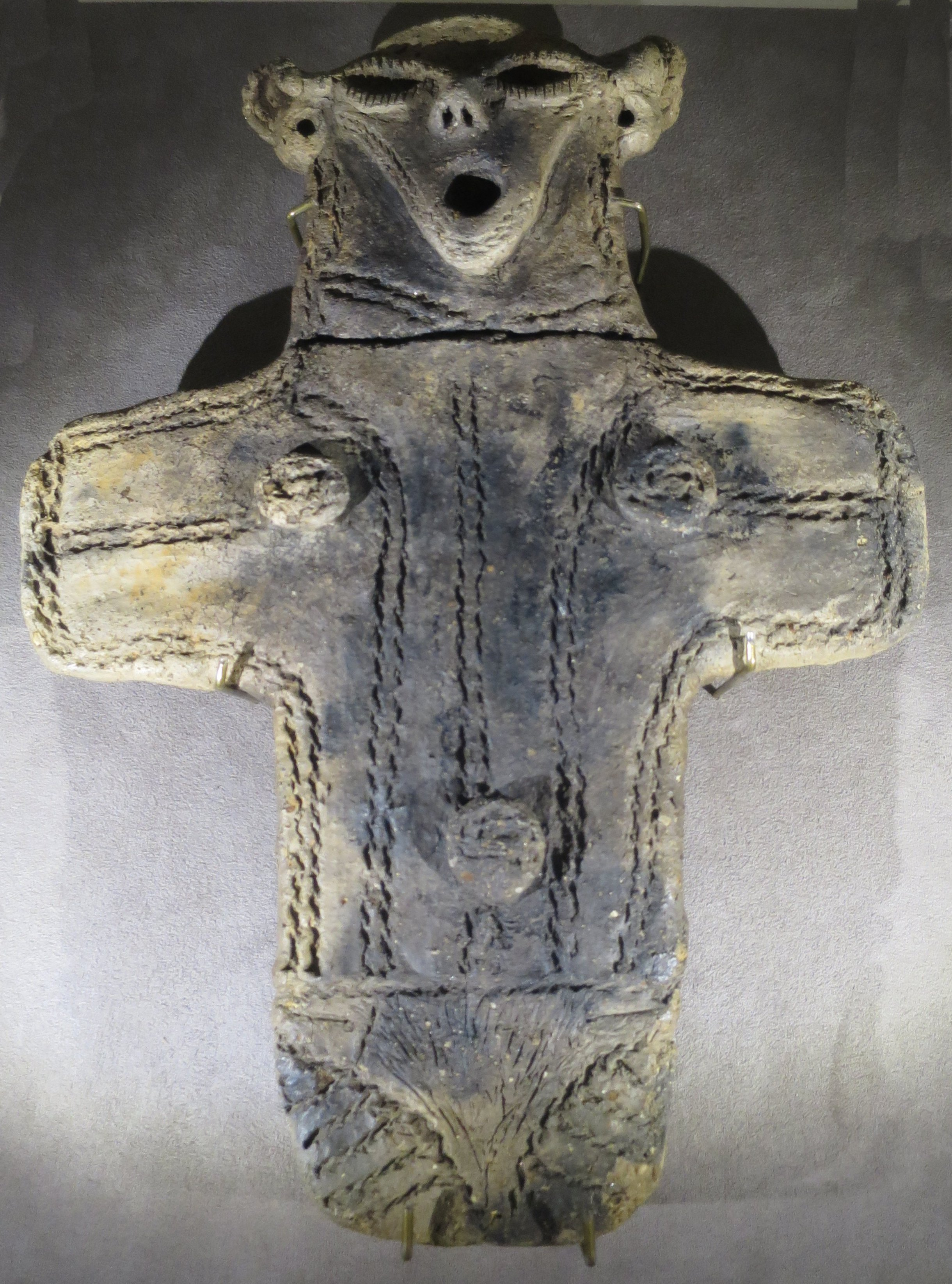 Flat clay figurine, Jomon Museum at Sannai Maruyama